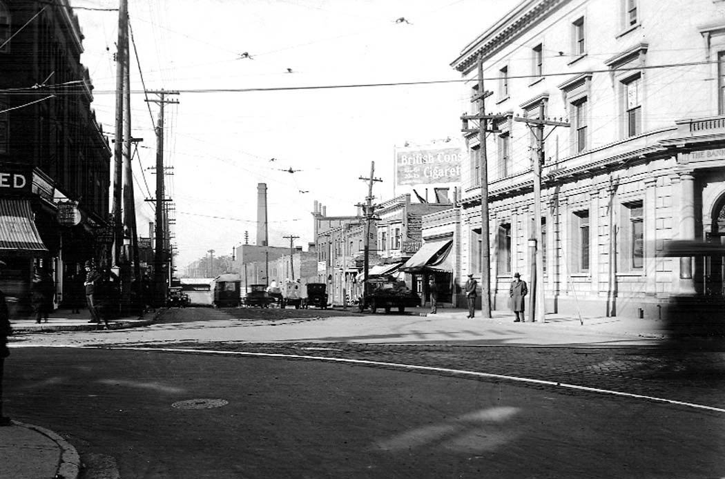 Keele and Dundas Streets, looking north (Toronto, Canada).